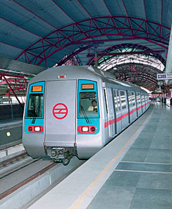 A motor coach of the Metro in Delhi, India